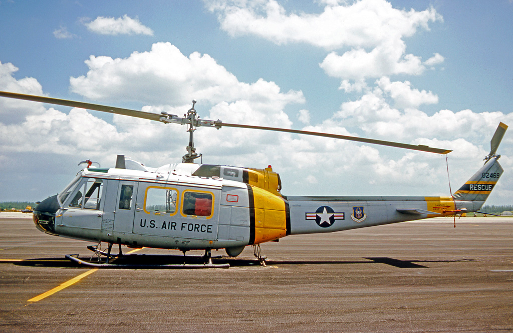 Bell HH-1H Iroquois of the US Air Force used in the SAR role in 1976